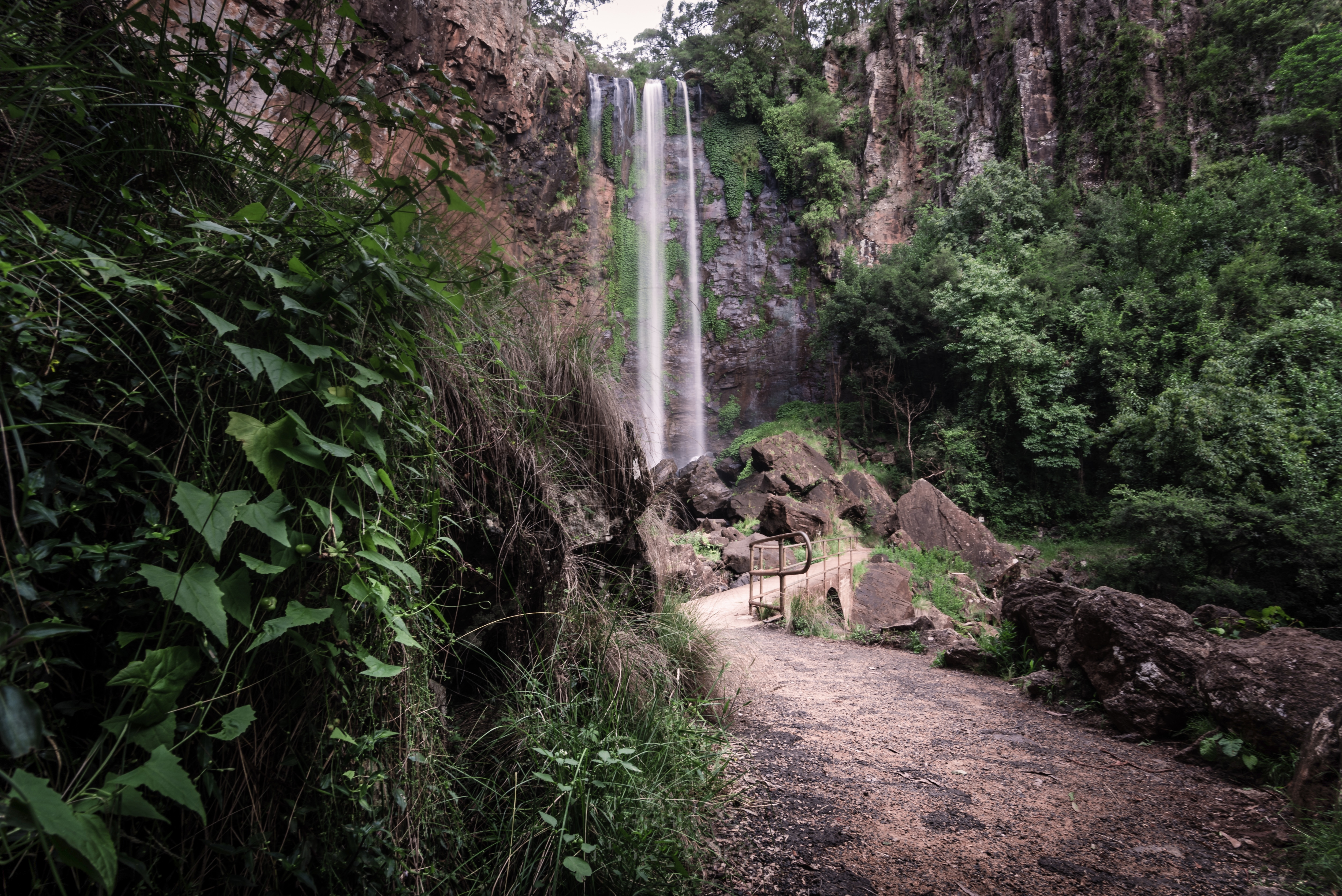 Queen Mary Falls 2017 taken by Snapshotz Photography